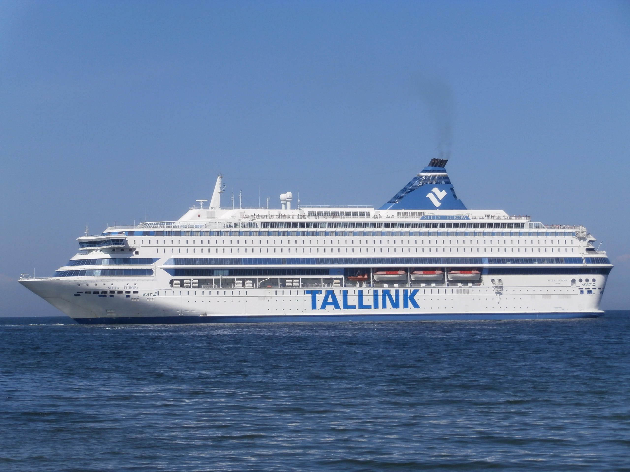 Silja Europa Port Side Tallinn 3 August 2013